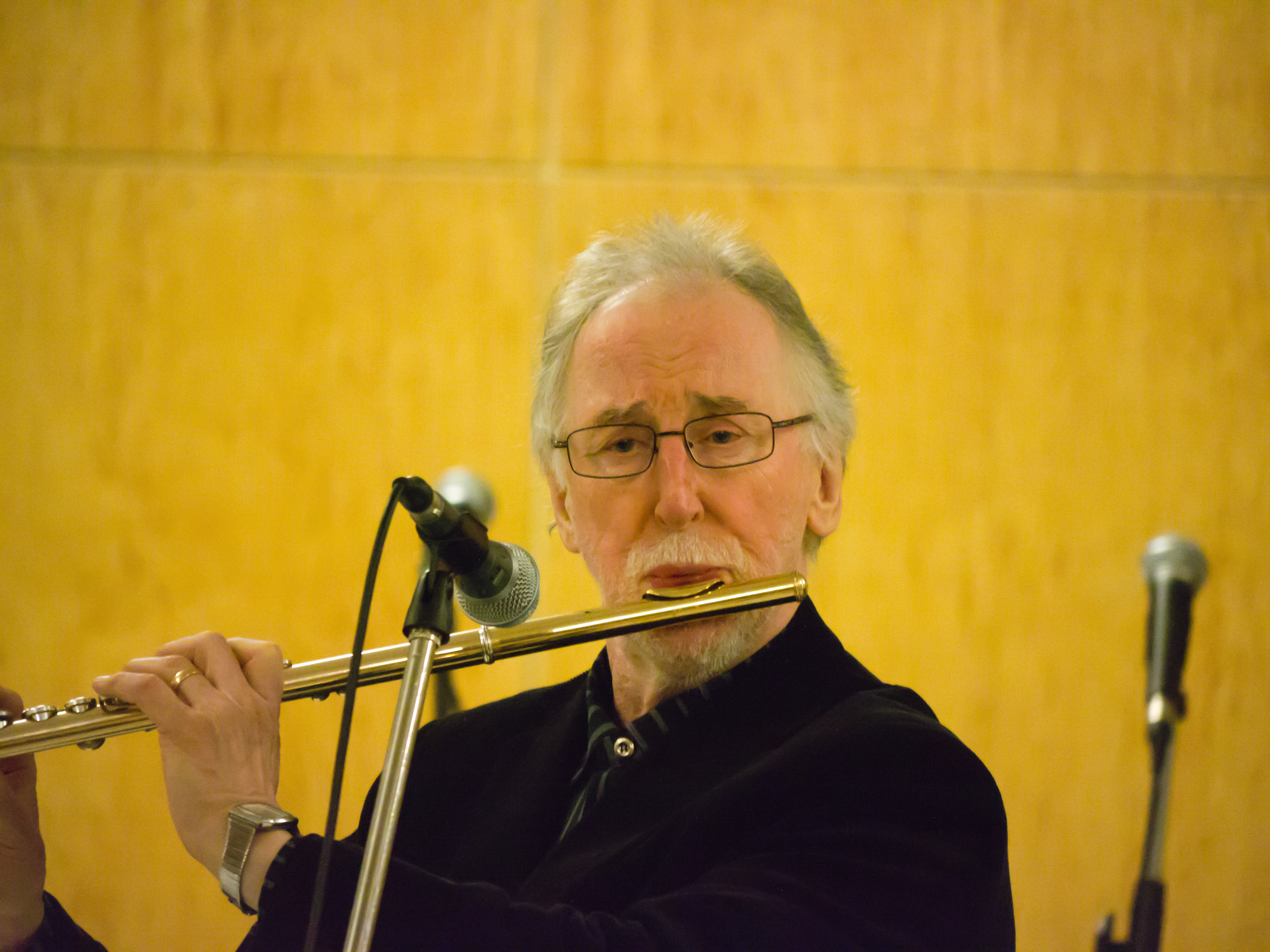 Juhani Aaltonen, finnish saxofone player